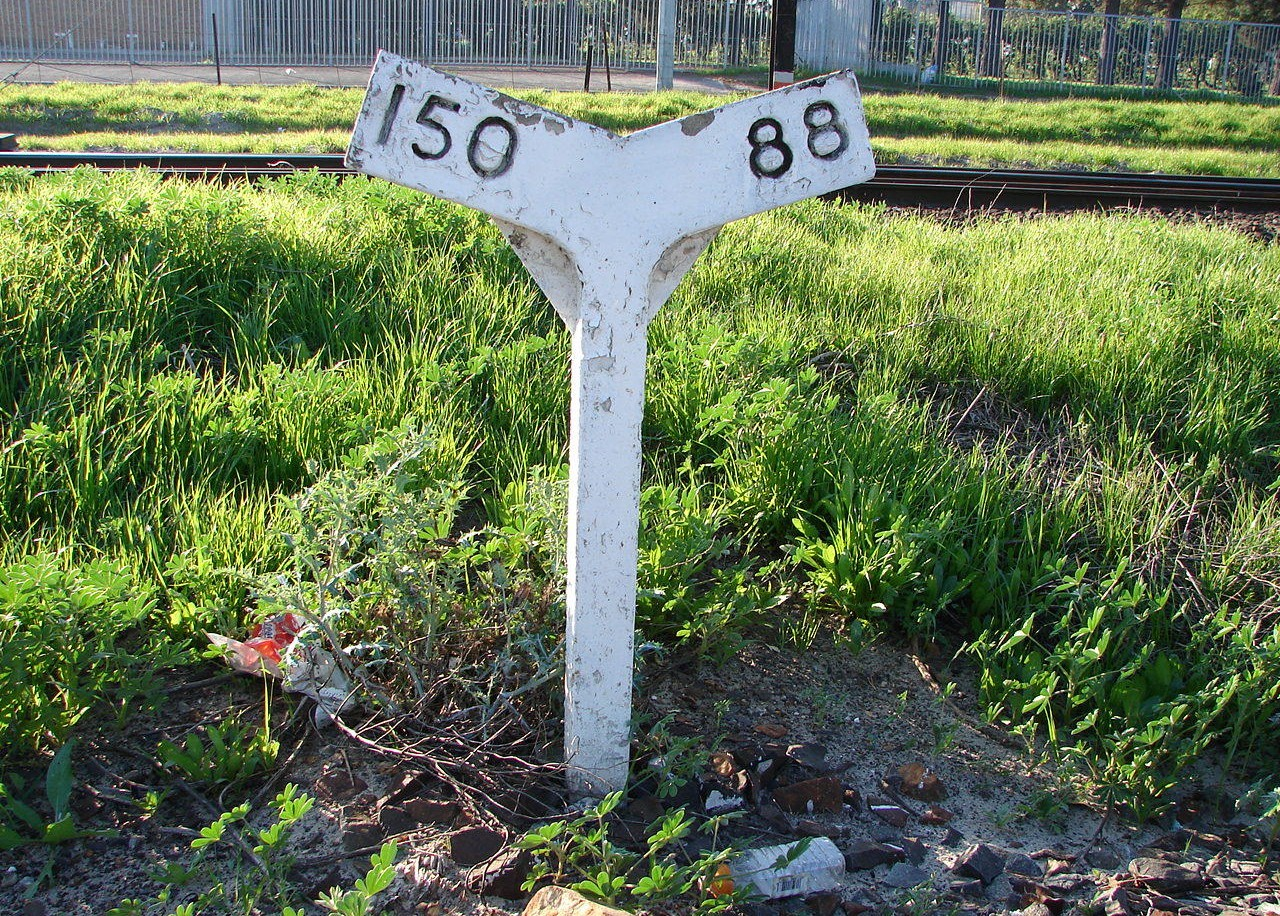 Grade indicator (1:150, 1:88) Location: Stikland, Cape Town, Western Cape